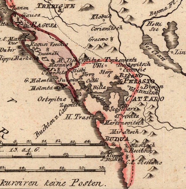 The Venetian enclave of Cattaro and the Republic of Ragusa. Cropped from a map of Dalmatia published in 1789 by von Reilly and titled Der Suedliche Theil des Koenigreichs Dalmatien mit der Republik Ragusa.